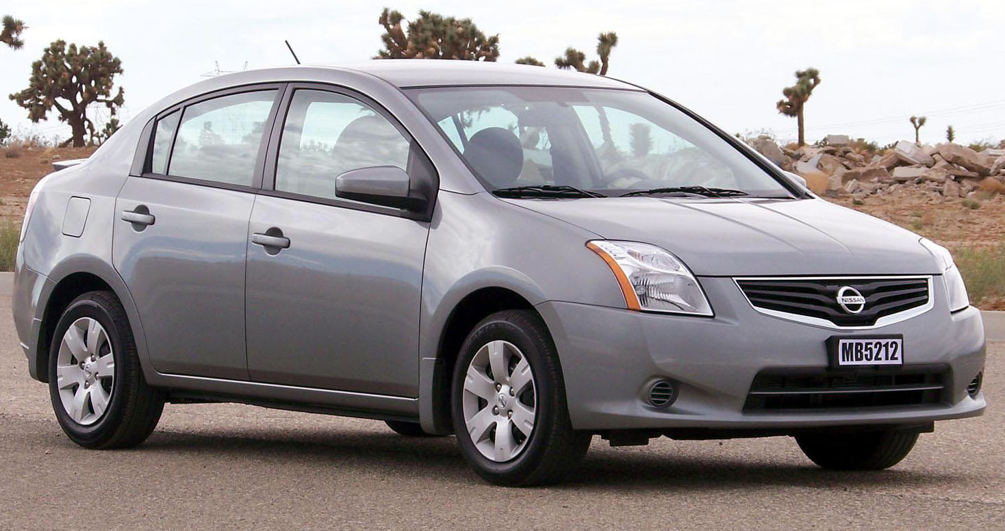 2011 Nissan Sentra 2.0S photographed in USA.